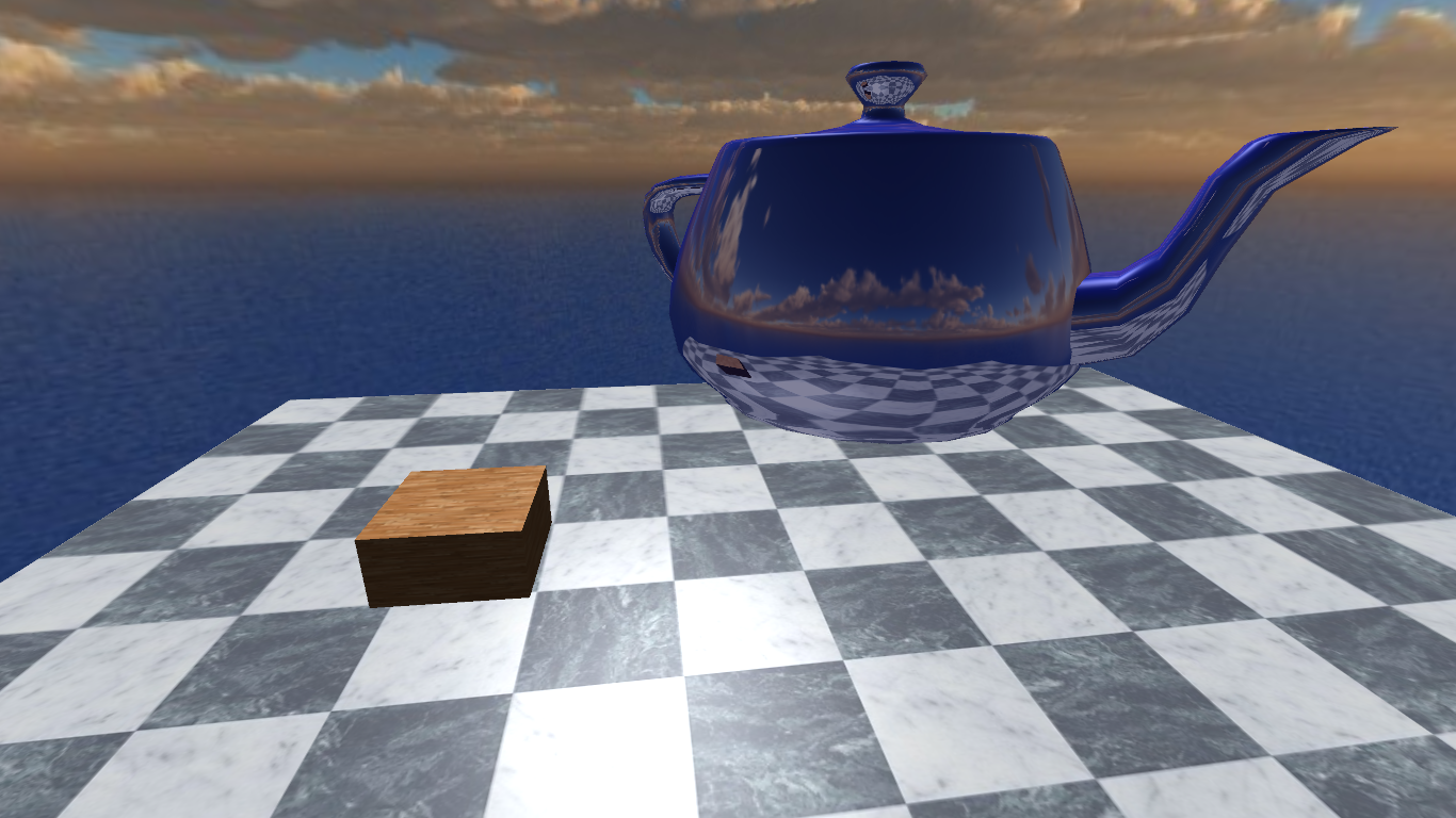 The Utah Teapot being used to demonstrate real-time reflections via environment mapping in DirectX 9/HLSL